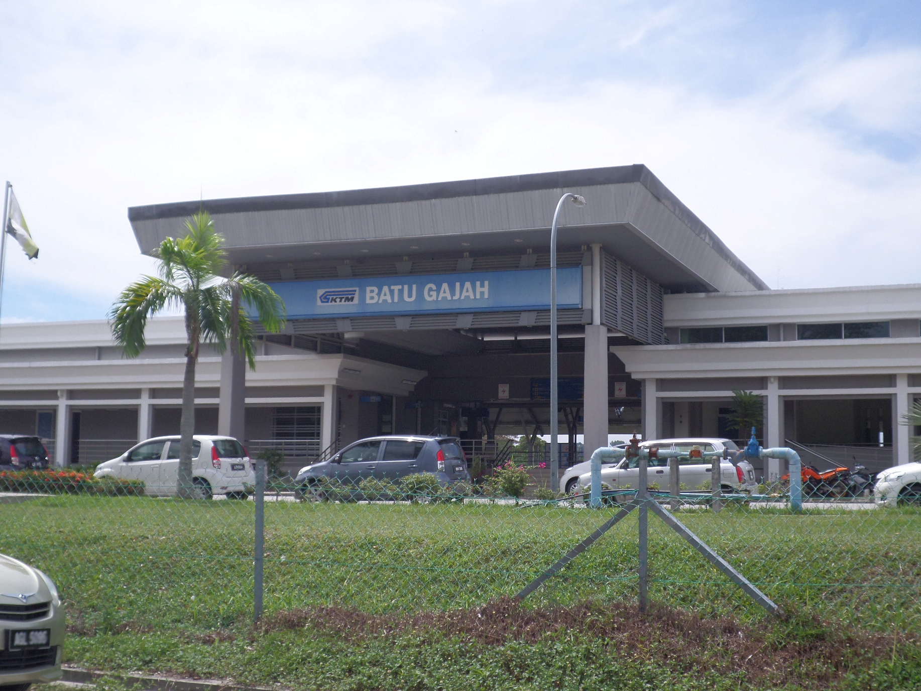 Batu Gajah Railway Station, Batu Gajah, Kinta, Perak, Malaysia